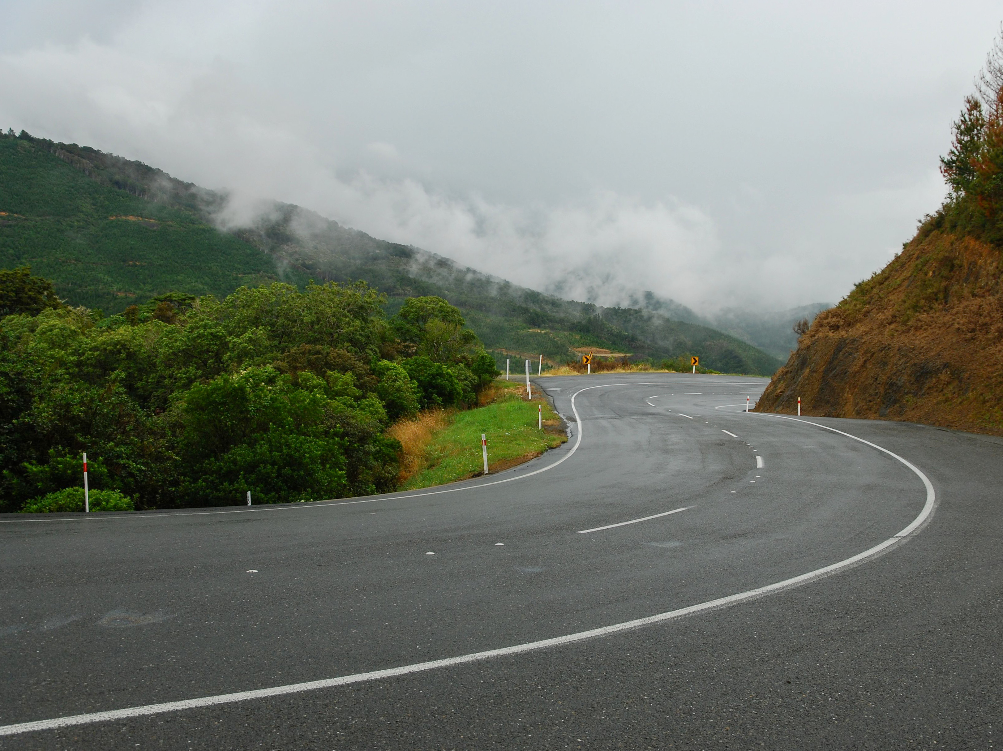 A view of NZ State Highway 6 near Hira, Nelson